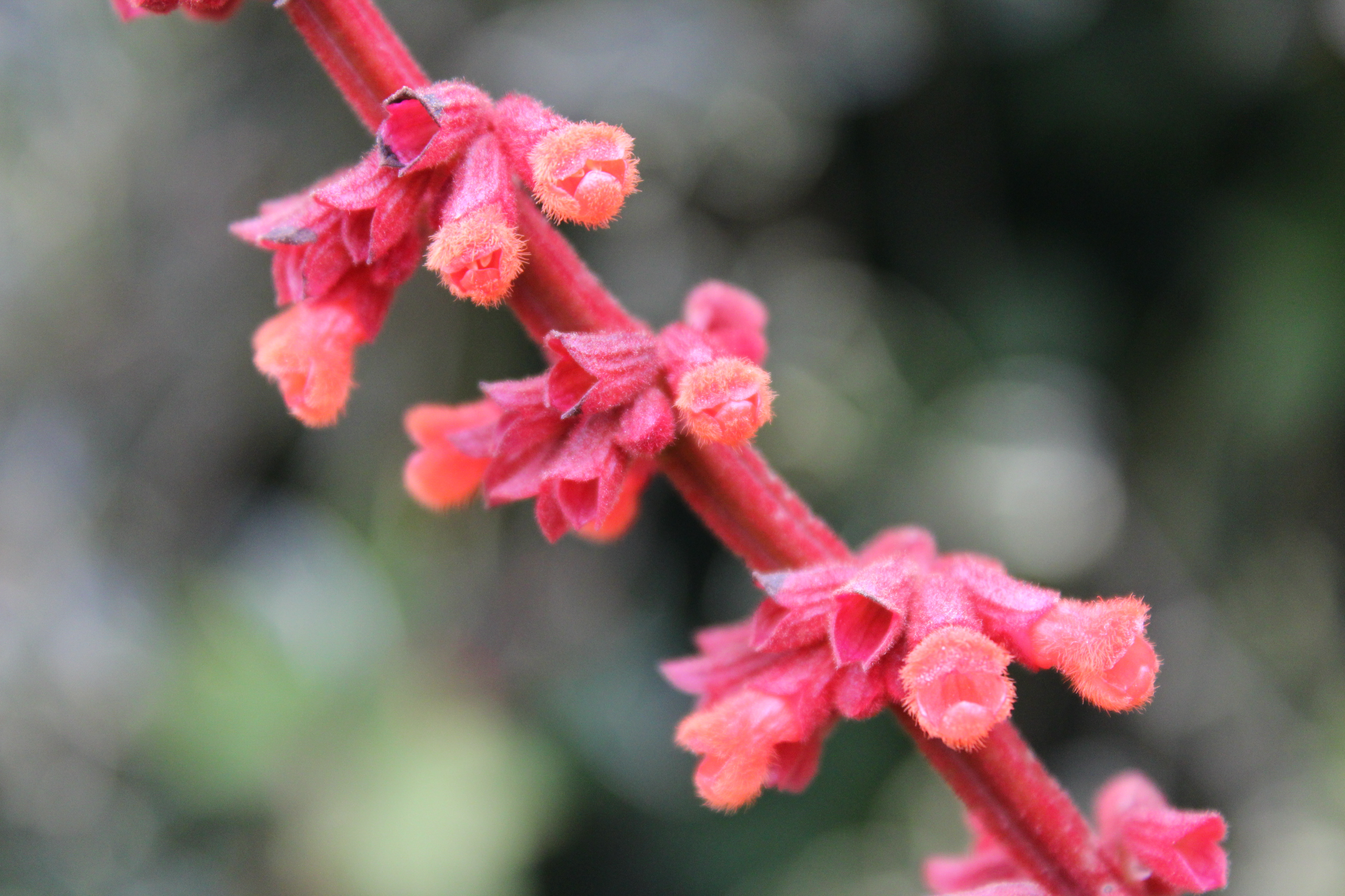 Close-up of flowers of Salvia confertiflora, taken on 23 October 2015 in London, England. This species is not winter-hardy in England and needs to be wintered under cover.